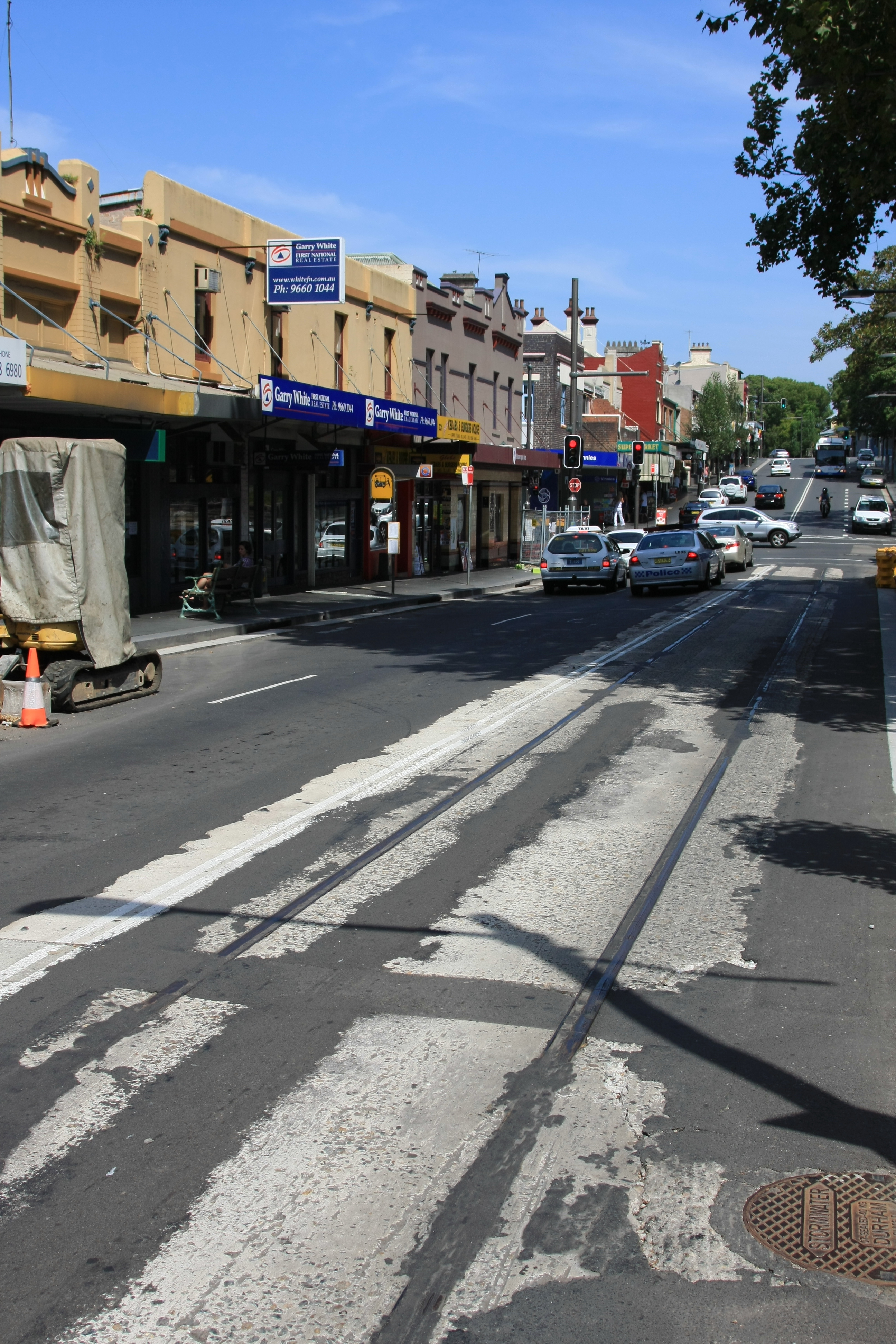 Recently excavated tram line in Glebe Point Road, New South Wales